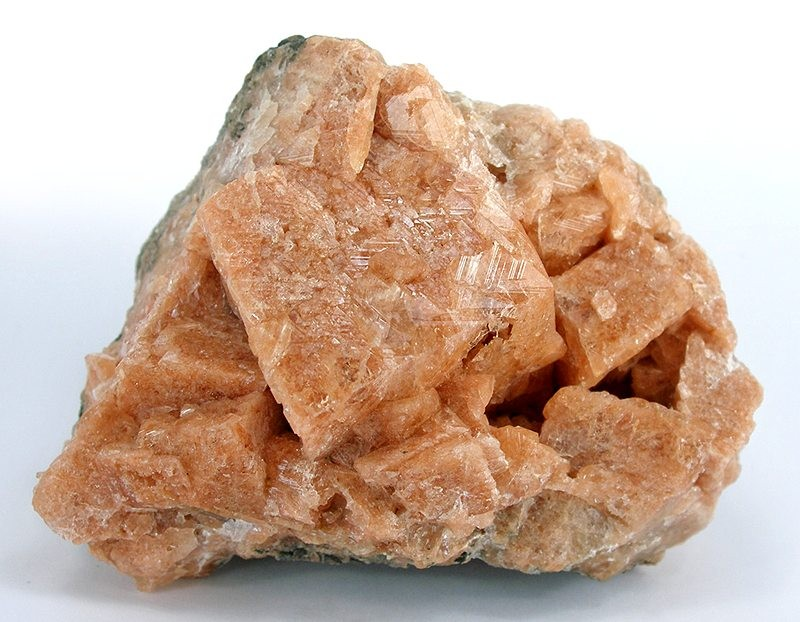 Gmelinite-Na, Chabazite-Ca Locality: Wasson Bluff, Parrsboro, Bay of Fundy, Cumberland County, Nova Scotia, Canada (Locality at ) Size: 7.6 x 5.7 x 4.6 cm. This is a dramatic cluster of large gmelinite crystals featuring a giant 3 cm crystal in the middle, all of which have replaced chabazite. The lustre is unusually good on this piece, almost glassy and therefore far better than on others I have seen in the past! This is new material collected recently from this classic old locality that is difficult to access, by my friend Rod Tyson (a semi-retired mineral dealer and well-known Canadian field collector!). This is a significant piece, from what I have seen in the past and also in context of this new find, for overall size and quality.